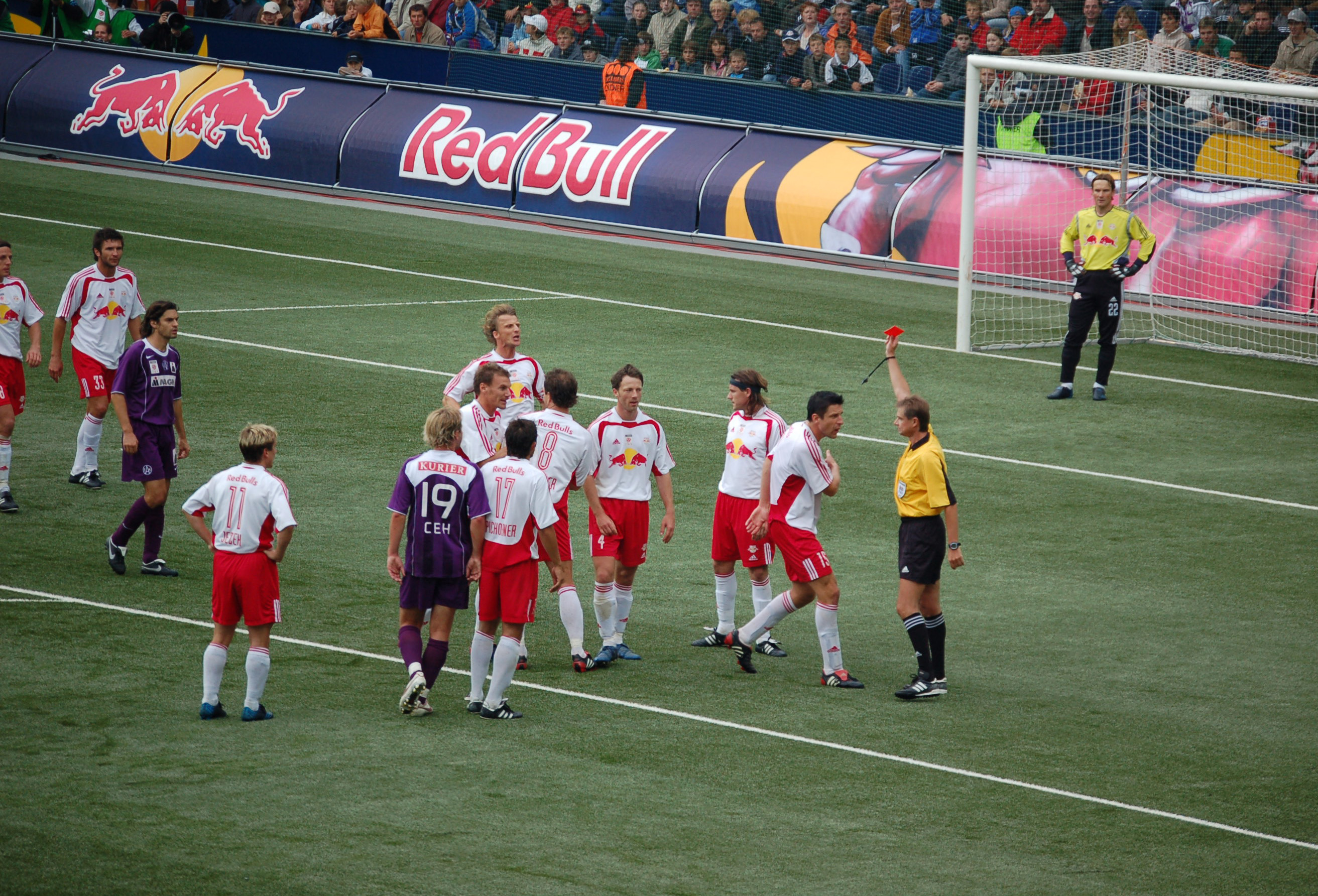 Referee Gerald Lehner shows Thomas Linke (FC Red Bull Salzburg) the Red Card (from FC Red Bull Salzburg vs. FK Austria Wien in the stadium Wals-Siezenheim).